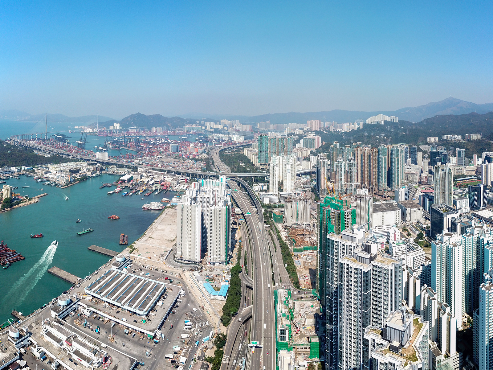 West Kowloon Highway near Cheung Sha Wan